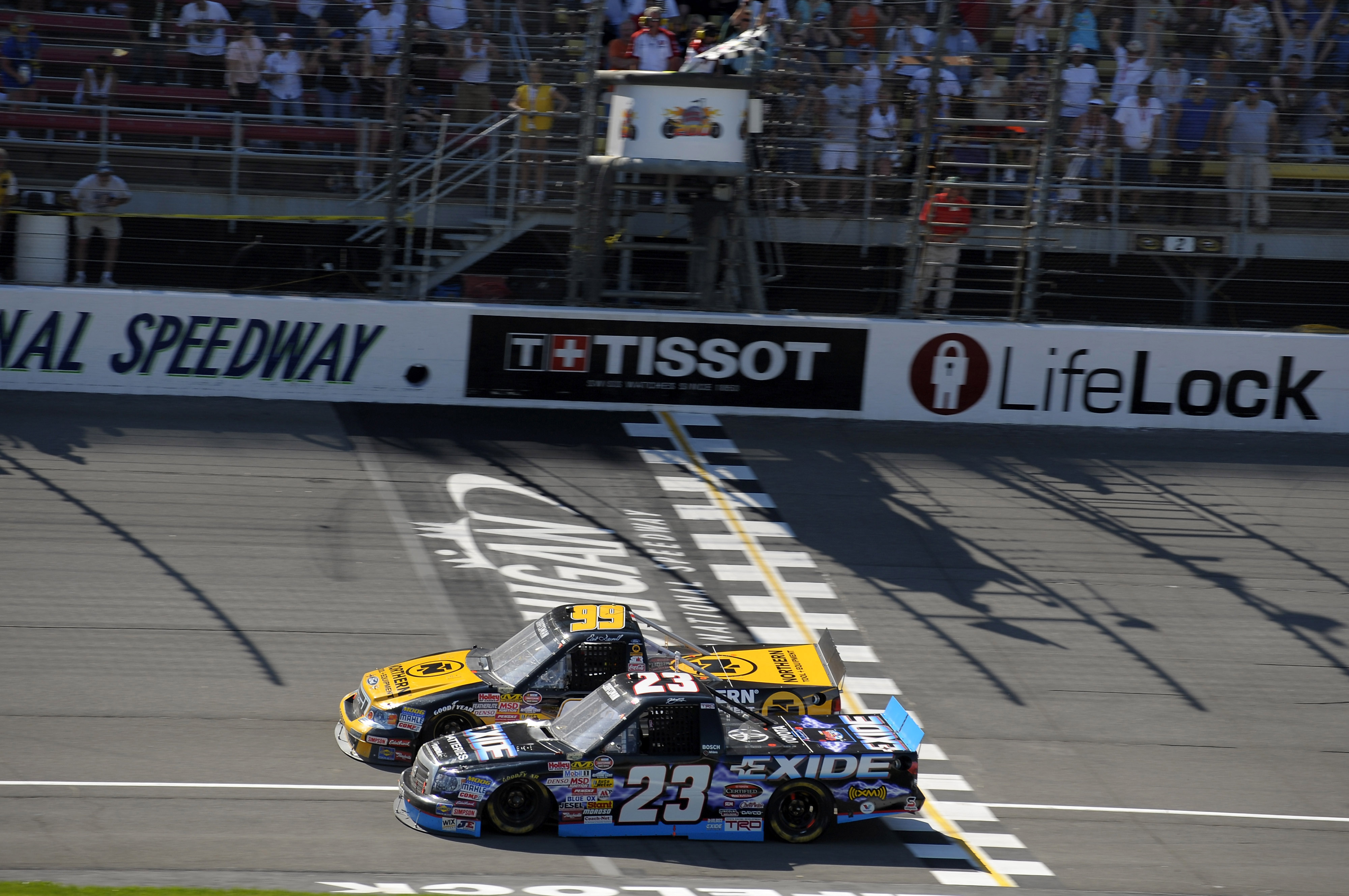 06/14/08 Brooklyn, Michigan USA. Erik Darnell beats Johnny Benson to the line and the win. For more news and information, visit . Autostock